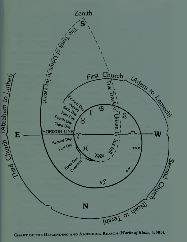 A chart which depicts the descending and ascending reason as embodied in the figure of Urizen, one of Wiiliam Blake's four zoas, through the Twenty Seven Churches, through the days of creation and through the zodiac